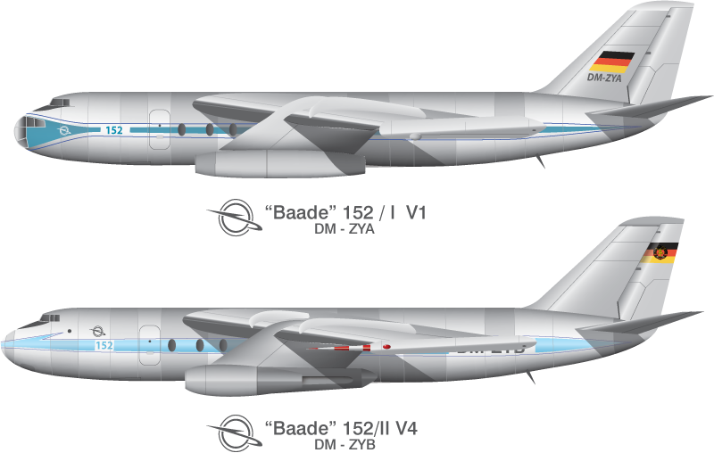 Baade 152/I V1 and Baade 152/I V4 prototypes in house livery as they flew 1958 and 1961